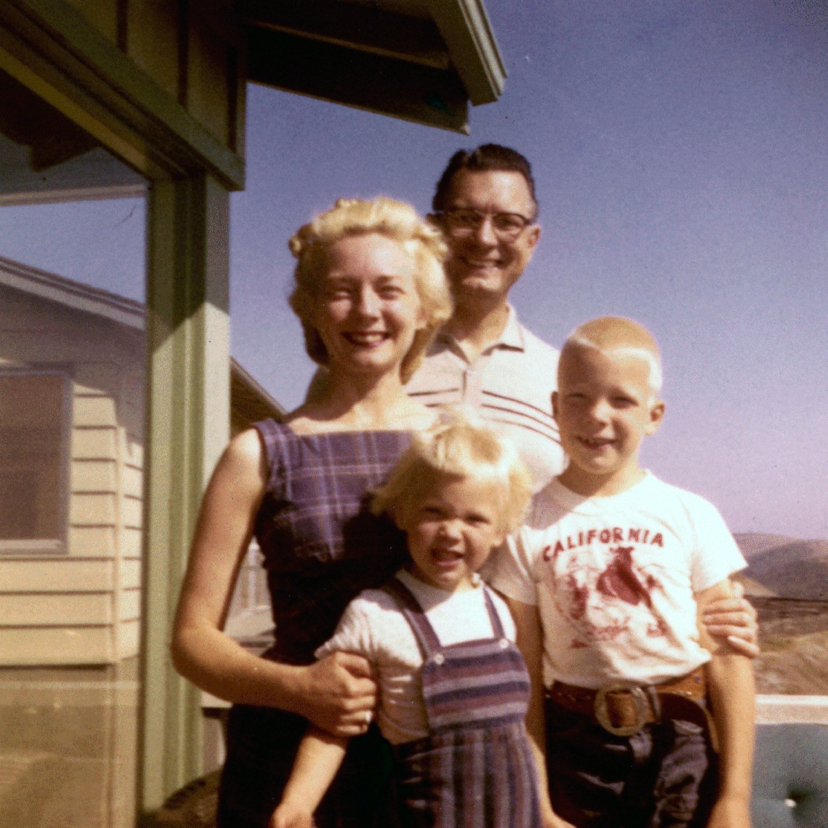 Item 31160, Ben Evans Recreation Program Collection (Record Series 5801-02), Seattle Municipal Archives.